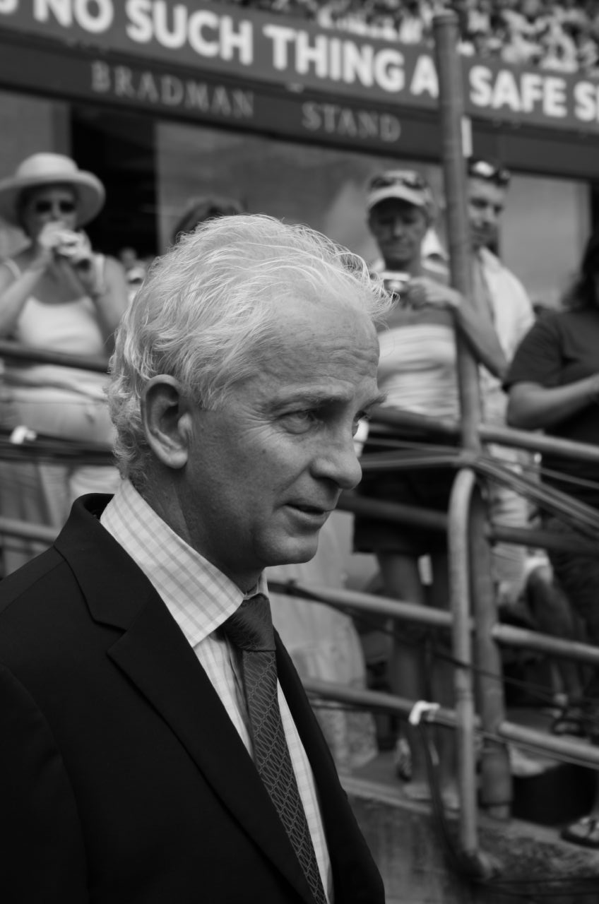 at Sydney Cricket Ground, Australia, c.2007.